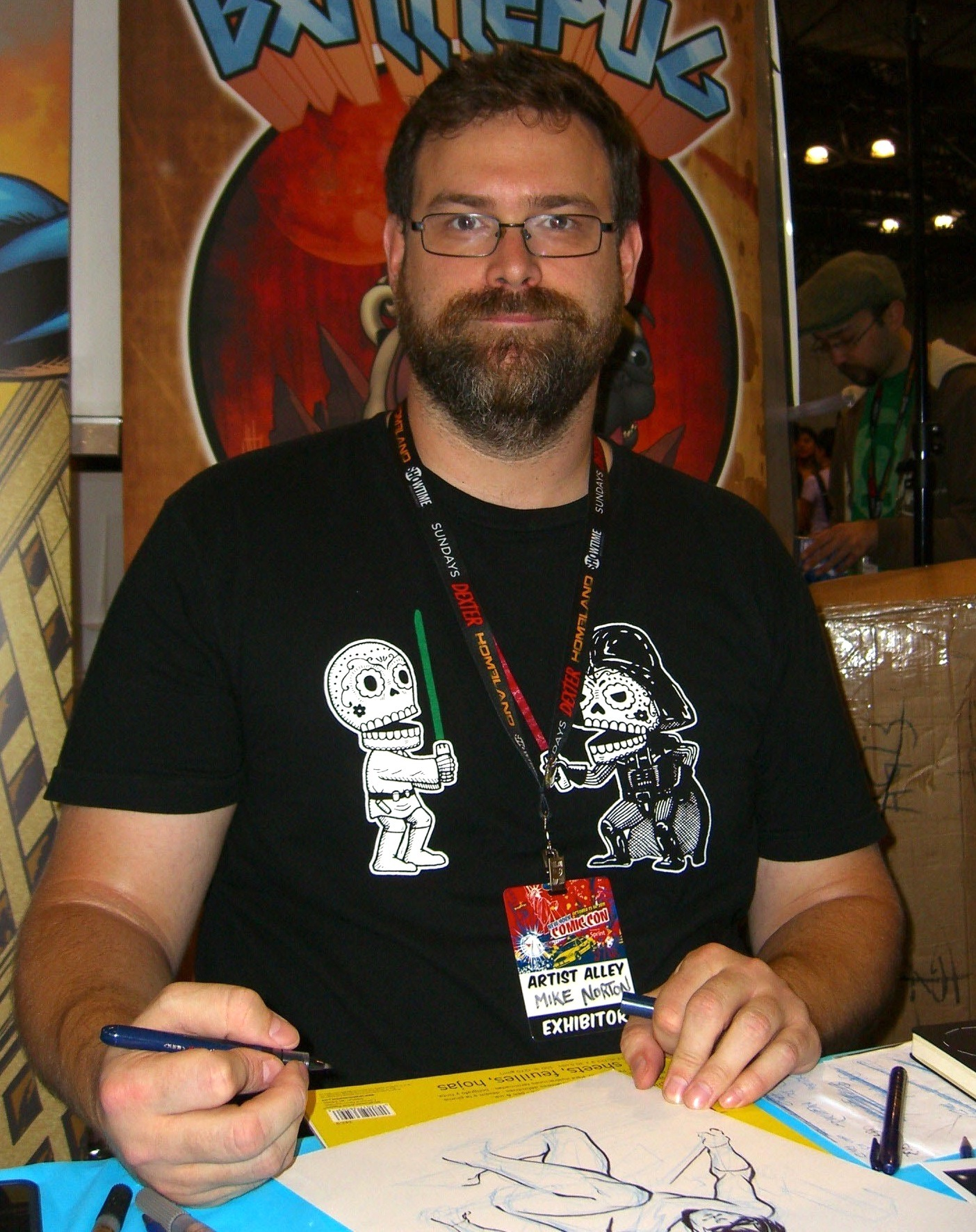 Comics creator Mike Norton during an October 16, 2011 appearance at the New York Comic Con in Manhattan. This photo was created by Luigi Novi. It is not in the public domain, and use of this file outside of the licensing terms is a copyright violation.